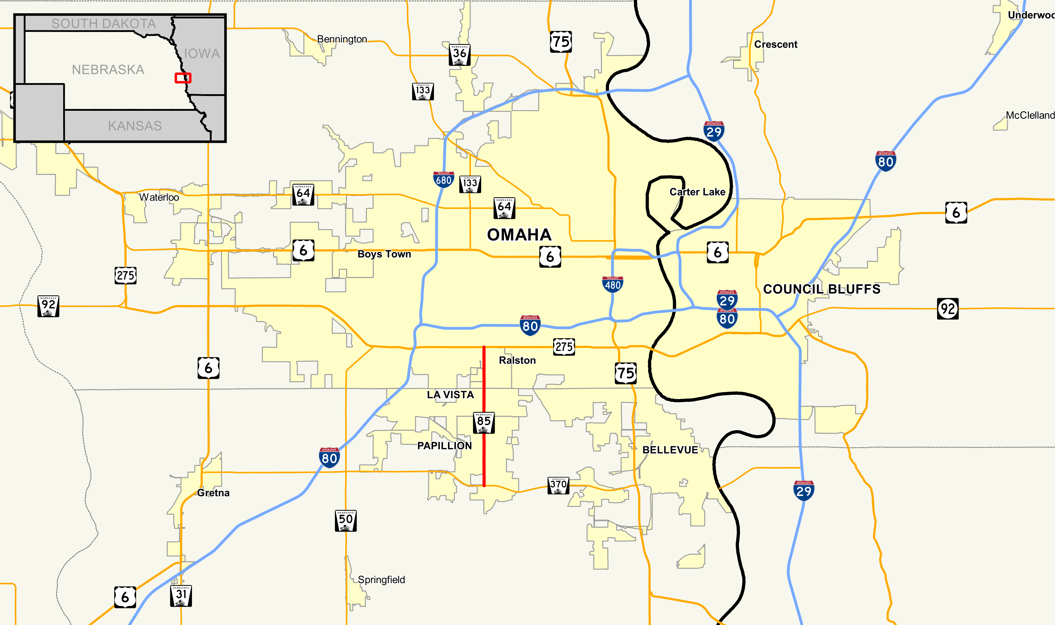 Map of Nebraska Highway 85 Data Sources: Nebraska Highways - - Dec 2016 Nebraska County Boundaries - - Dec 2016 Nebraska City Boundaries - - Dec 2016 This PNG graphic was created with QGIS